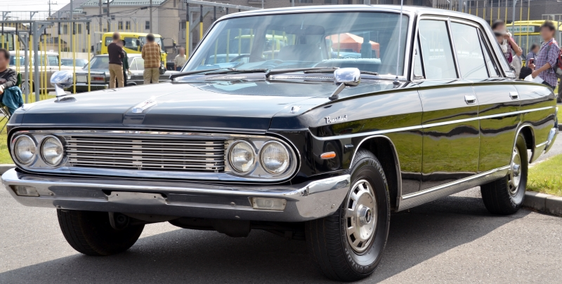 Nissan President